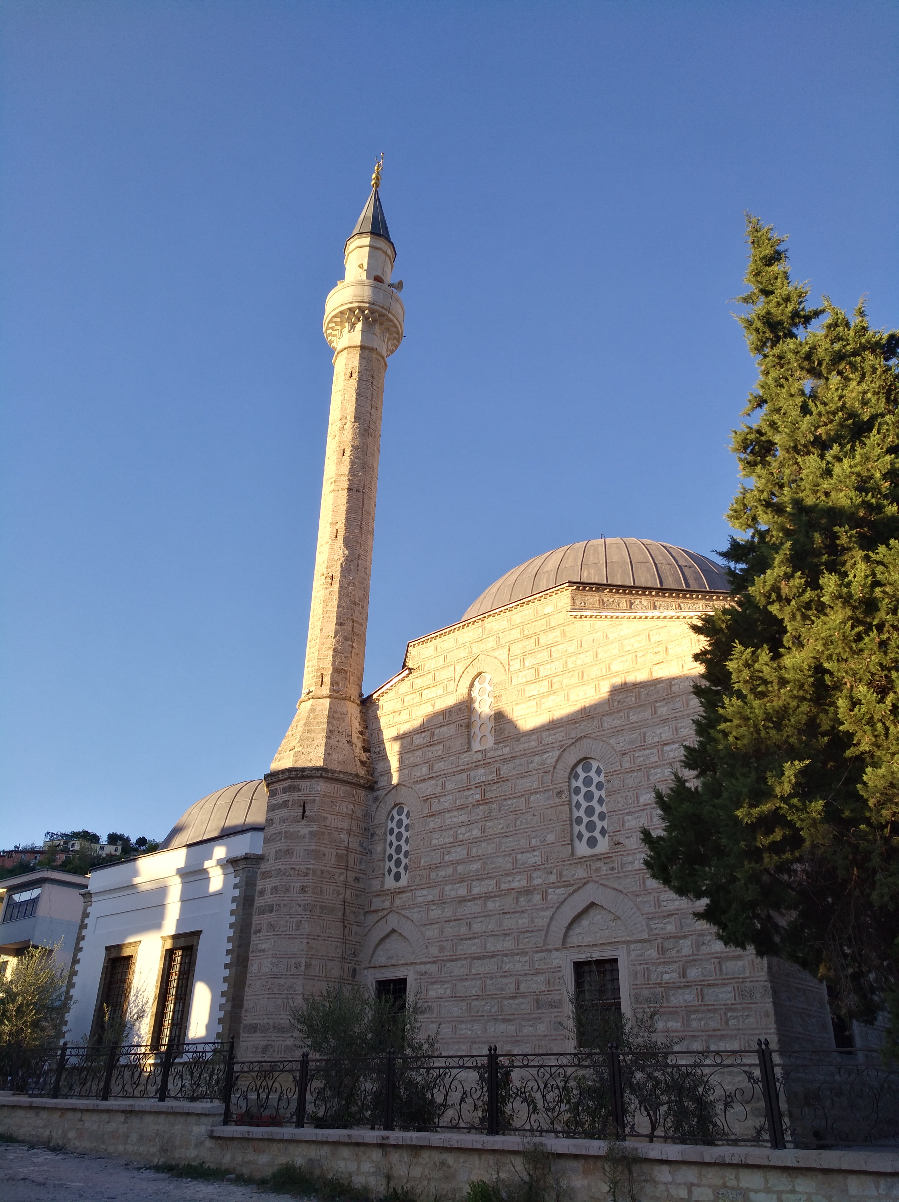 Lead Mosque in Berat, Albania.